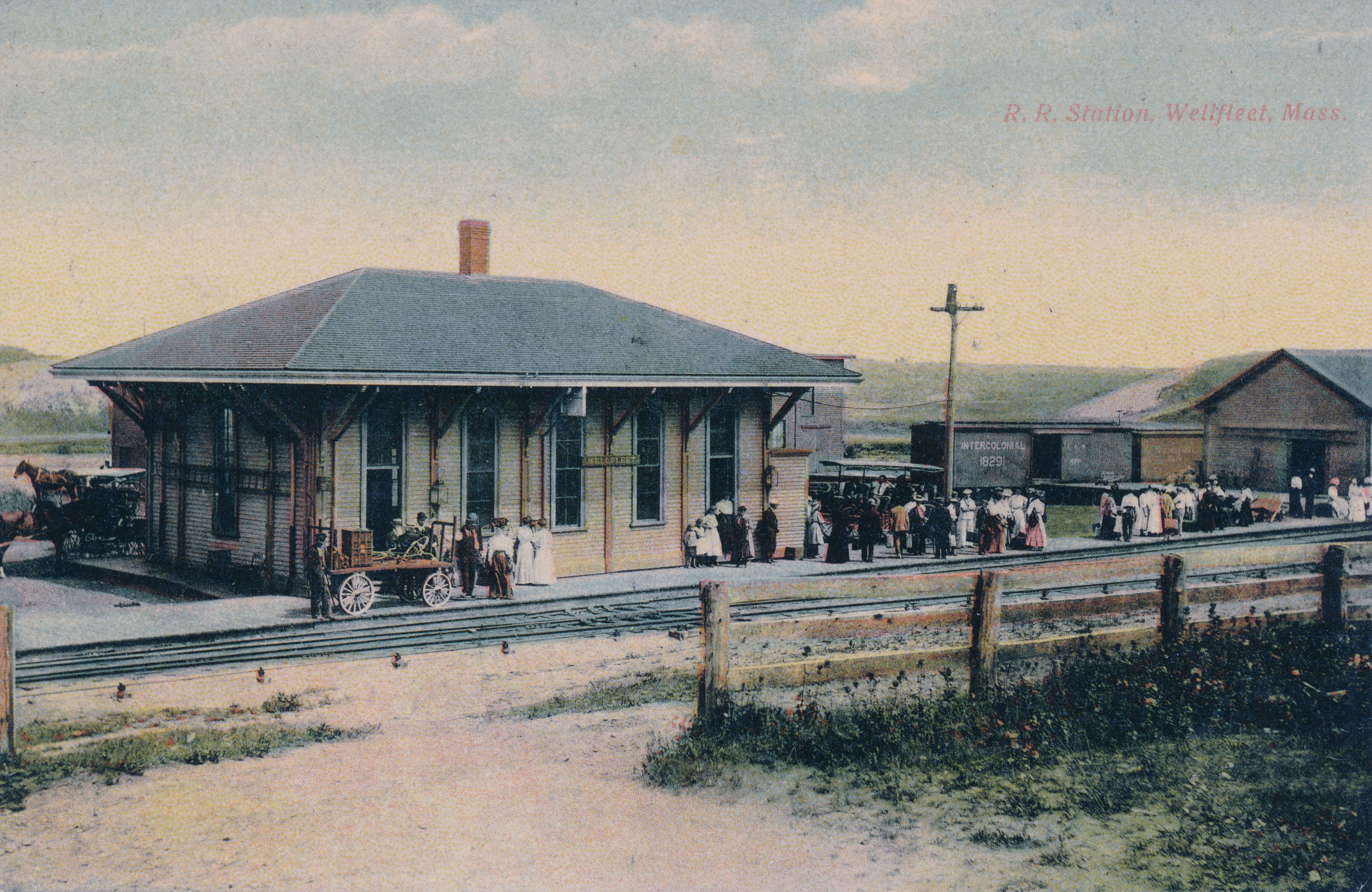 An early postcard showing the former Wellfleet, Massachussetts train station and post office.